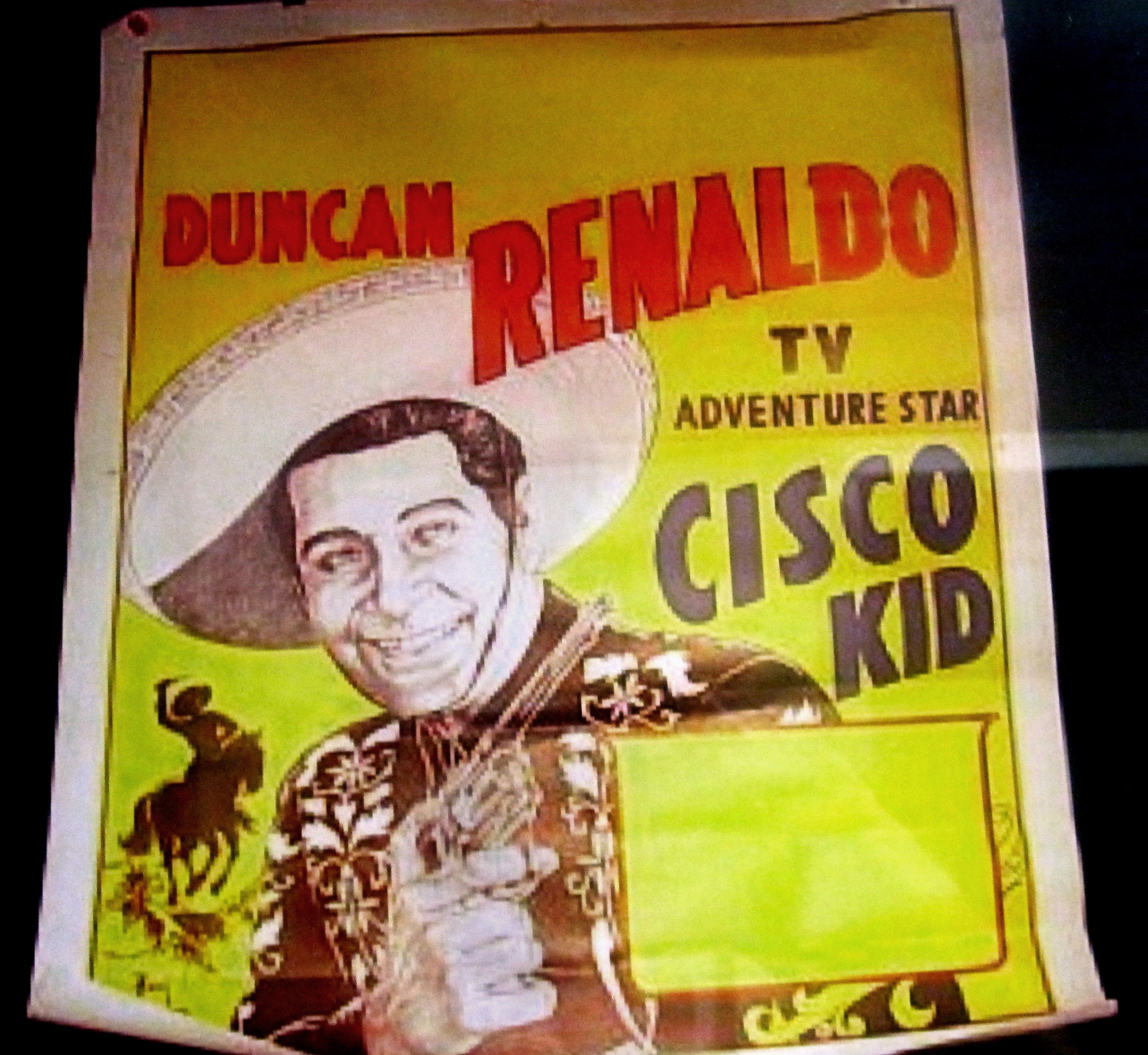 I took photo with Canon camera in Cisco, TX.